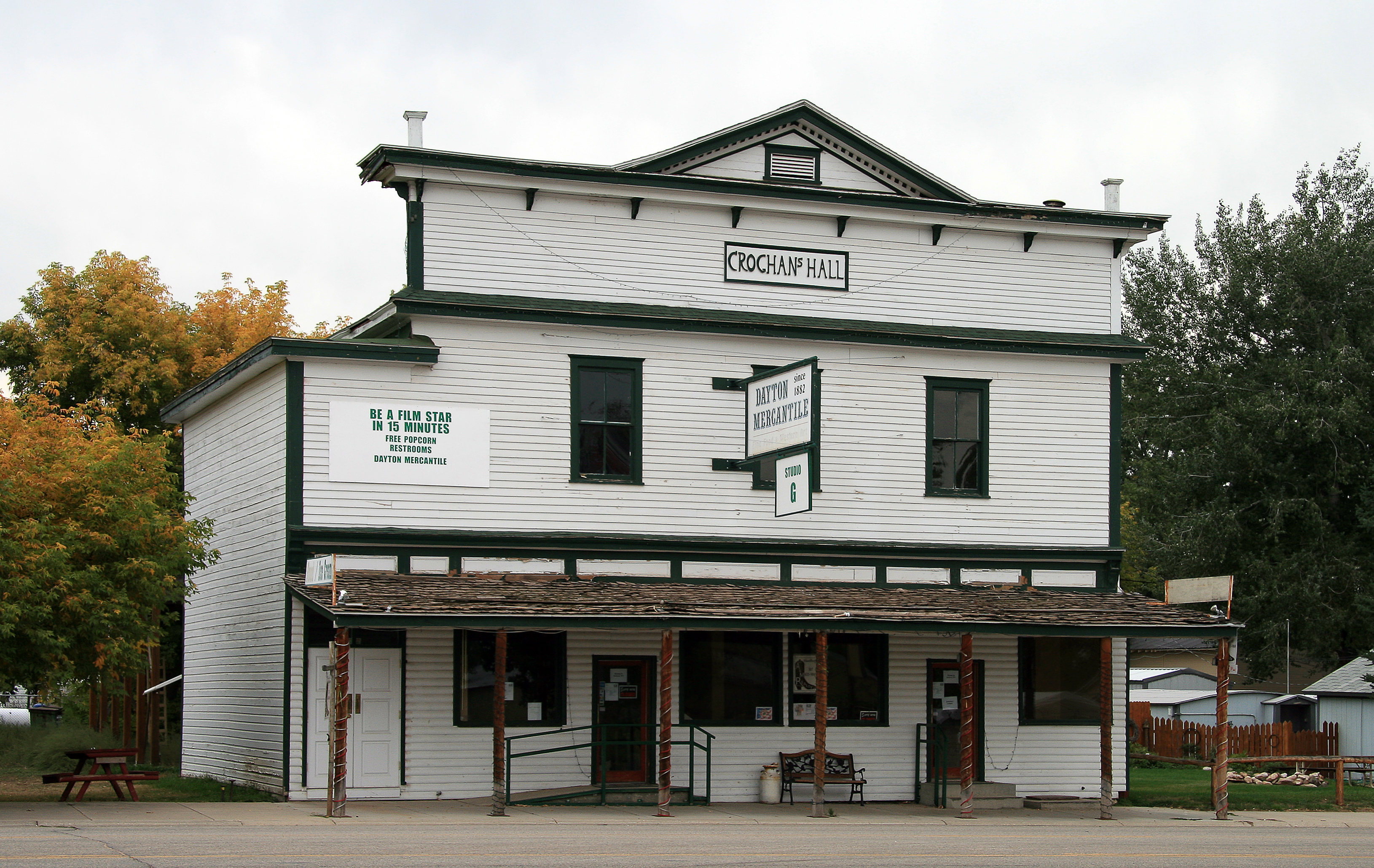 Crochan's Hall, or Dayton Mercantile in Dayton, Wyoming, USA